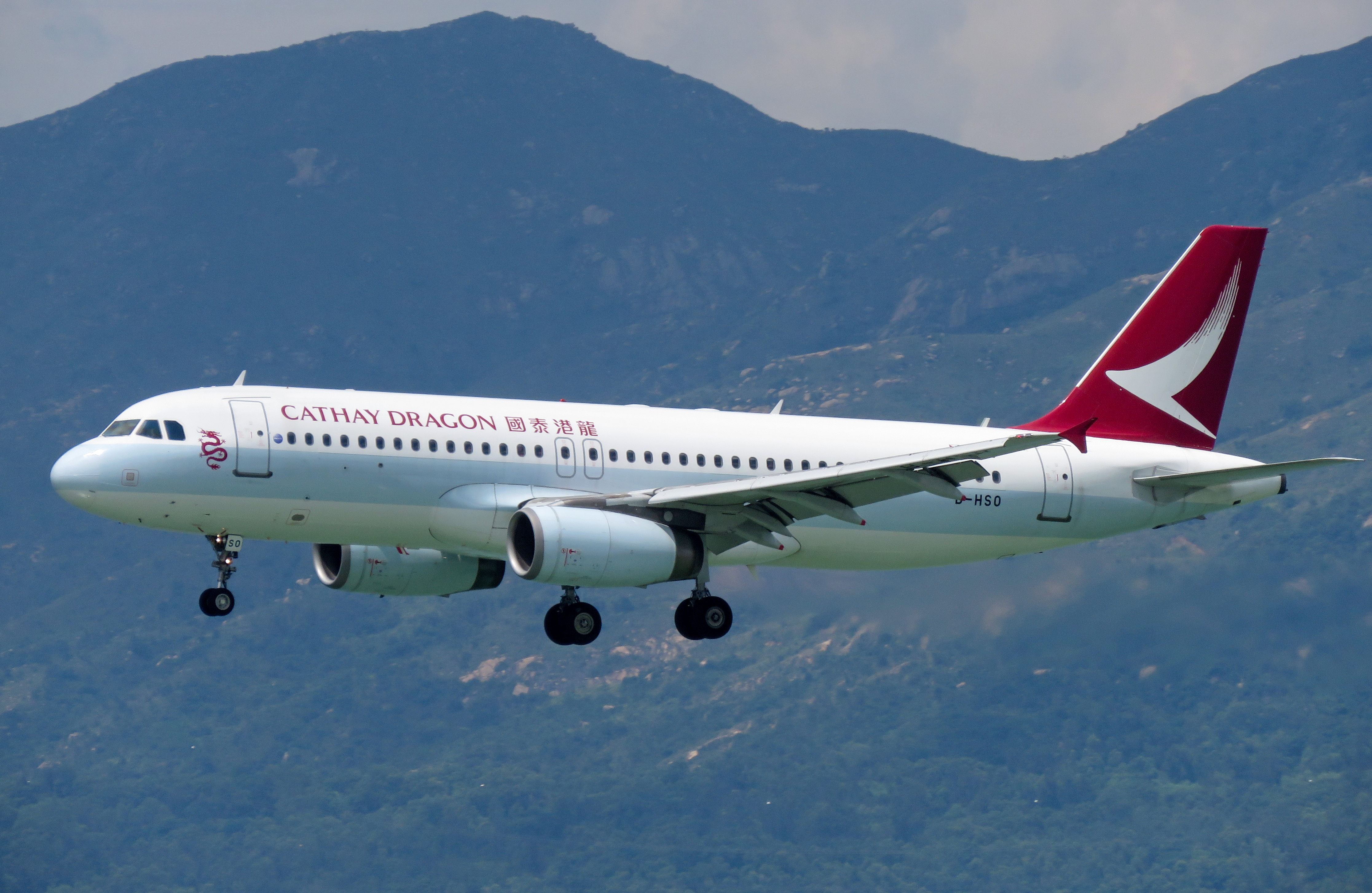 Dragon 853 from Wuhan, in new livery.